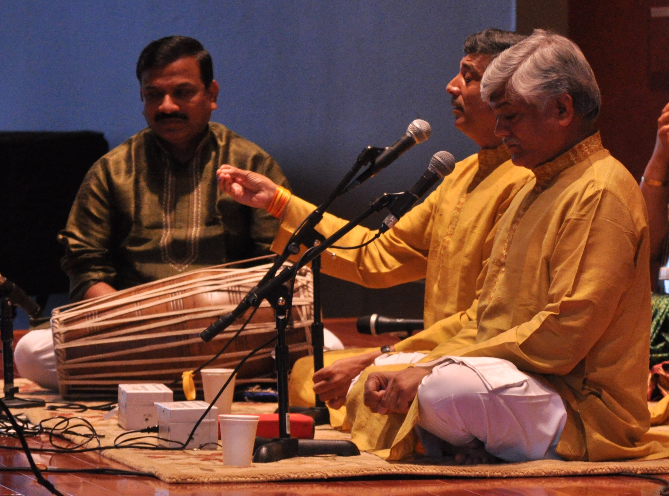 The Gundecha Brothers, performing at the Baha'i Center in Bellevue, Washington, USA. Left to right: Akhilesh Gundecha (pakhawaj), Umakant Gundecha (vocals), Ramakant Gundecha (vocals).